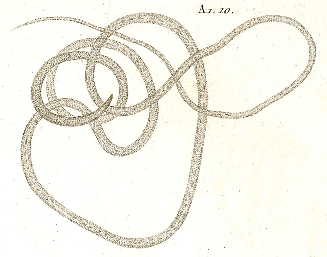 Dujardin, F. (1845). Histoire naturelle des helminthes ou vers intestinaux. Paris: Librairie encyclopédique de Roret. Plate 2 Figure A1 of Plate 1. Original caption of this part of the plate: A 1 (10). Trichosoma dispar de l'oesophage du hobereau (Falco subbuteo) Present name: Eucoleus dispar (Dujardin, 1845), Nematoda, Capillariidae Full text, including caption of this Plate, available from BHL: Scan from original book by Jean-Lou Justine This file has been extracted from another file: Dujardin 1845 Planche 2.png